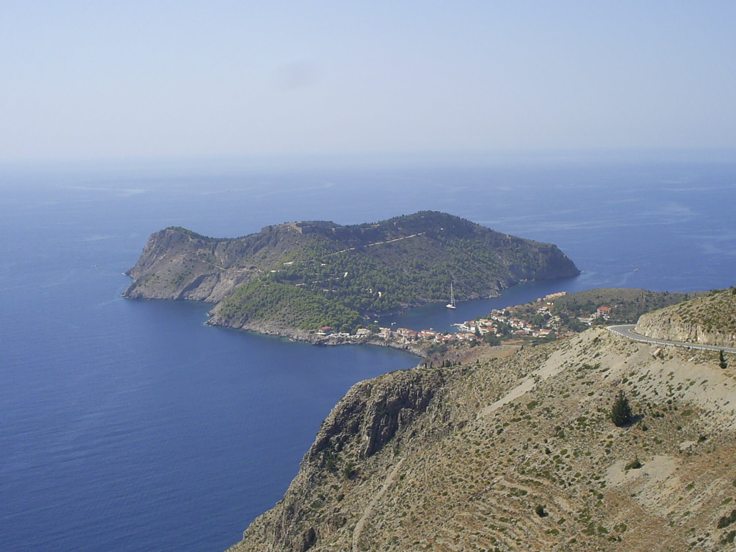 Assos, Kefalonia